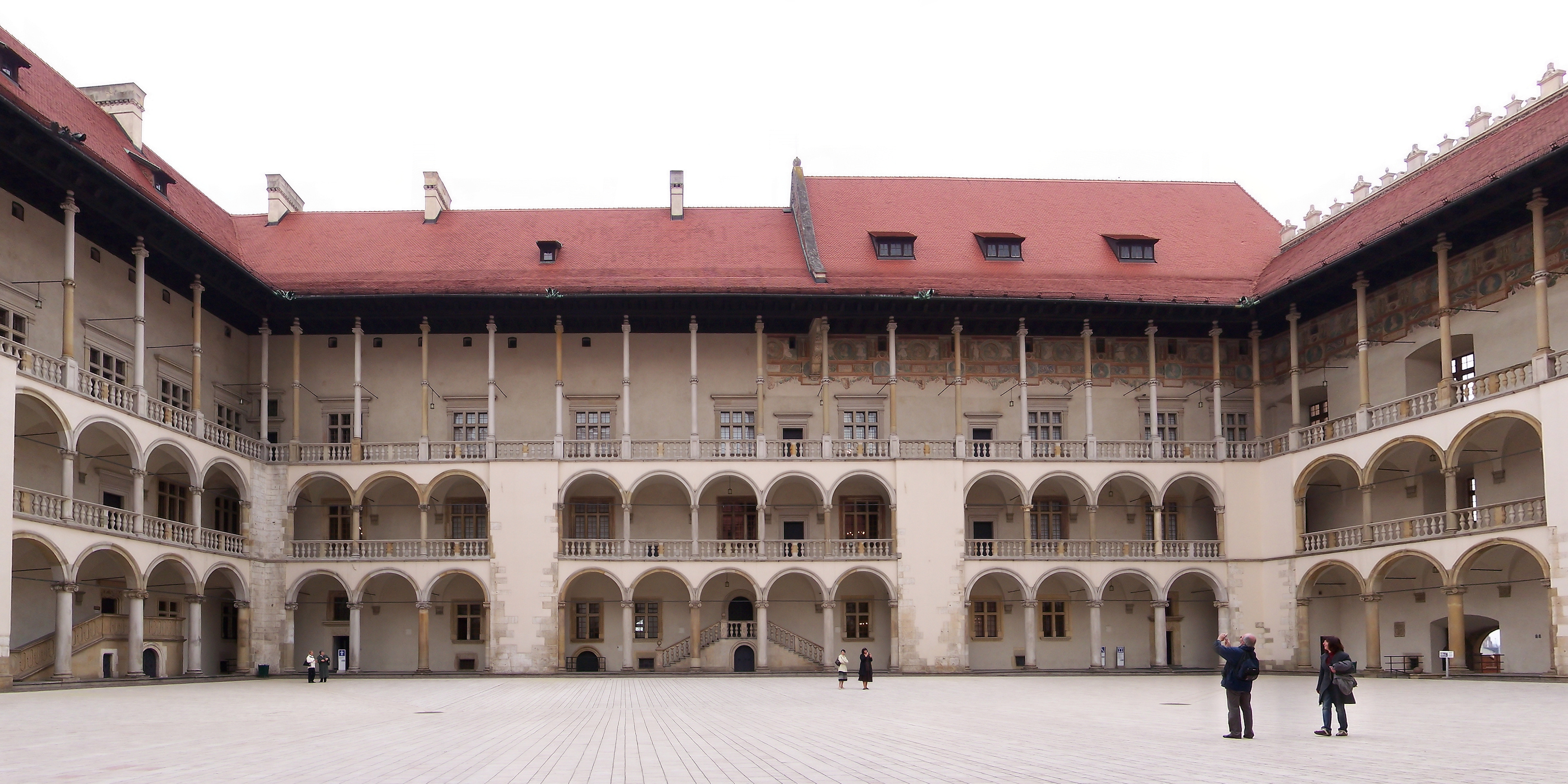 Wawel Castle in Kraków (Poland).